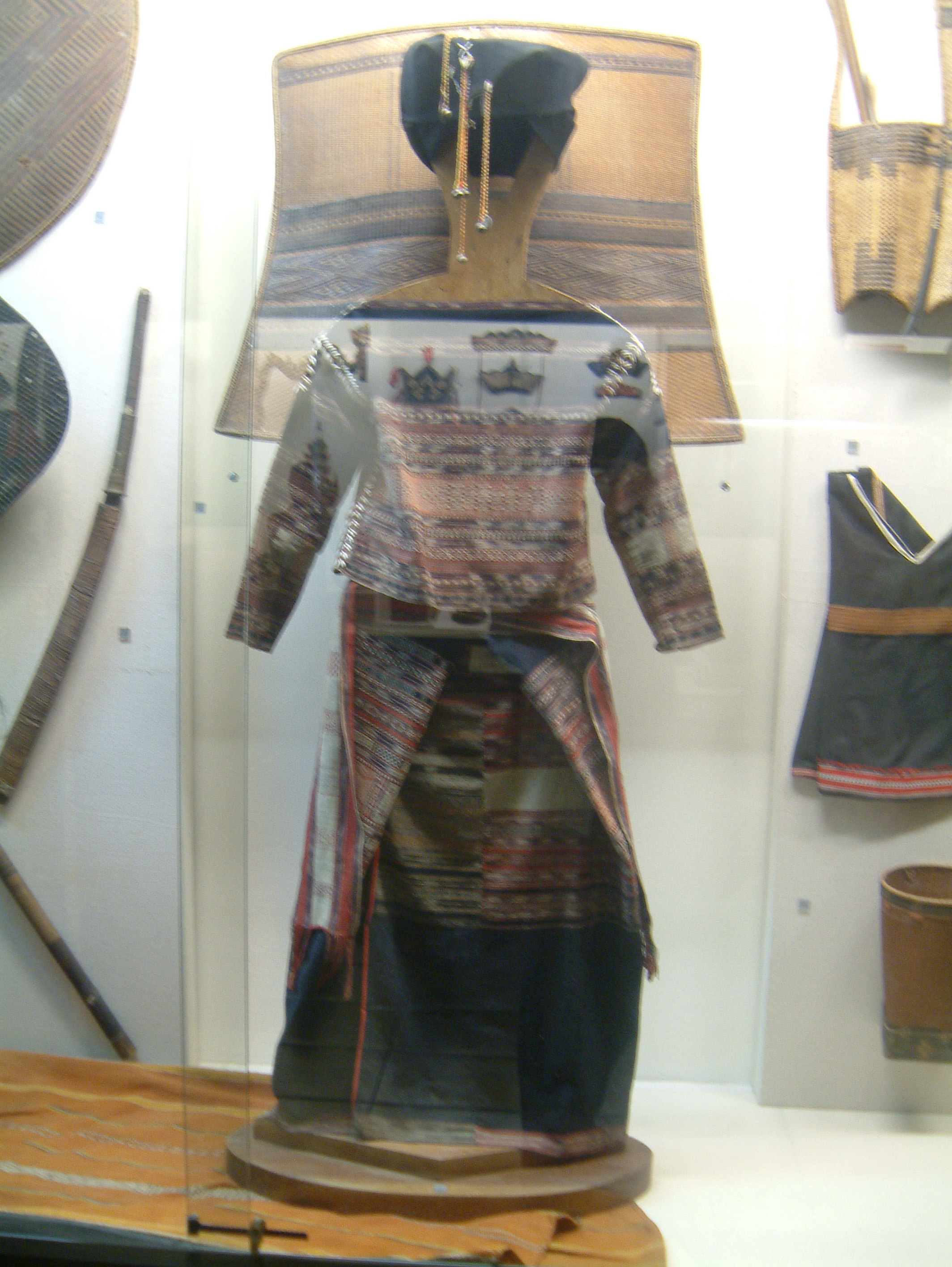 Traditional clothing of Xo Dang people (Vietnam Museum of Ethnology)